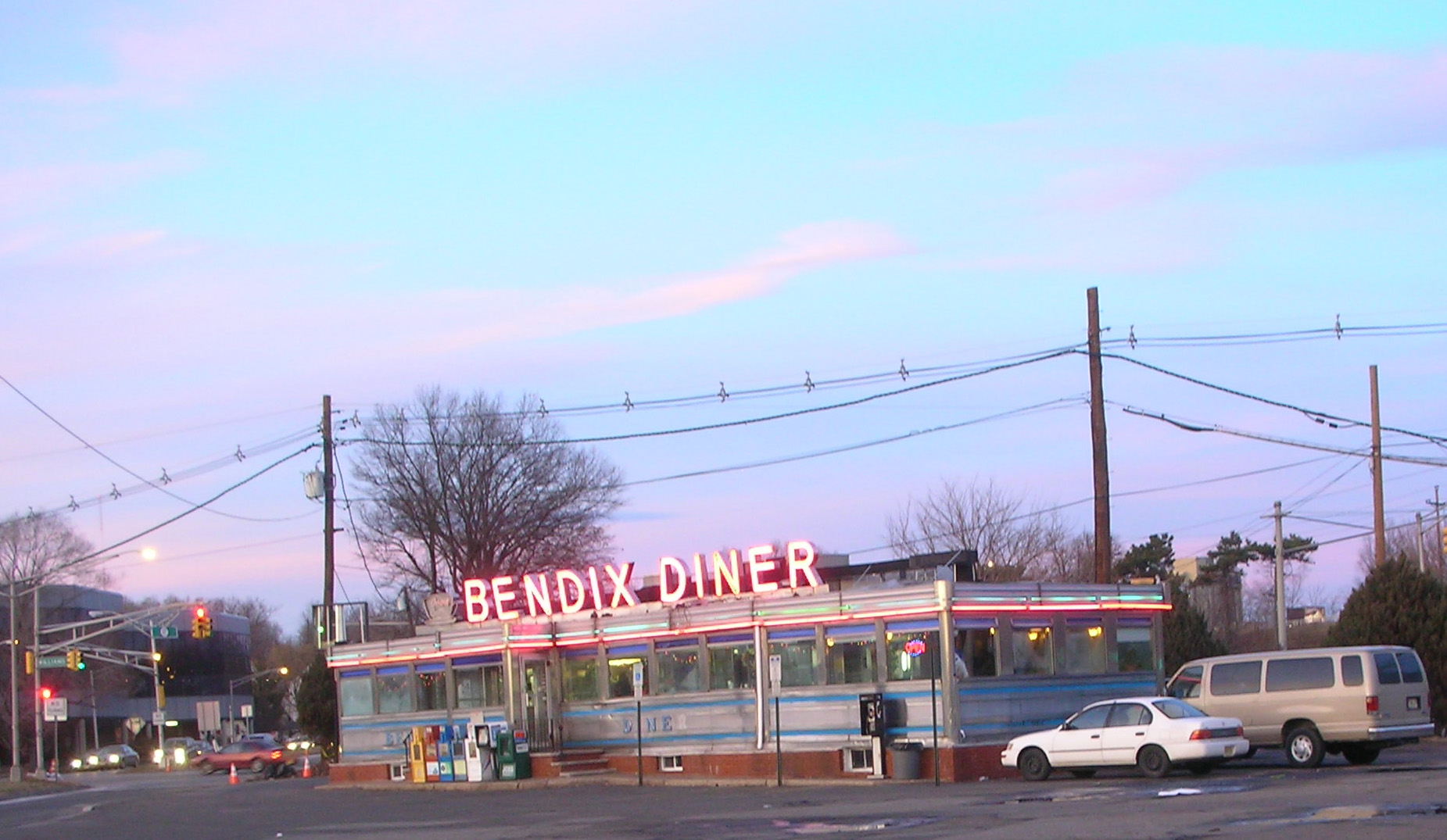 The Bendix Diner in Hasbrouck Heights, NJ. Founded and Built by Charles "Chip" De Lorenzo Sr.